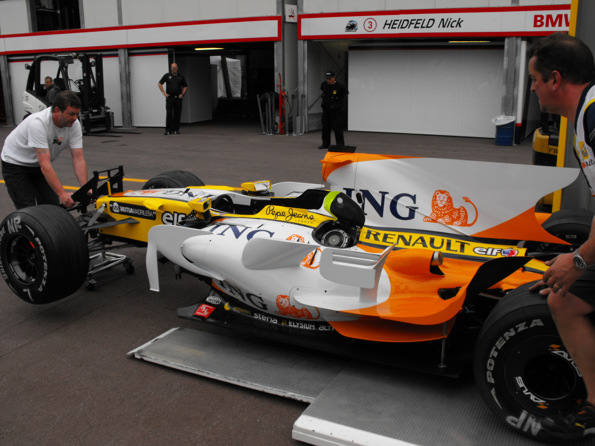 Two Renault R28 Formula 1 racing cars being unloaded from the Renault trailer at the pit lane at the 2008 Monaco Grand Prix.